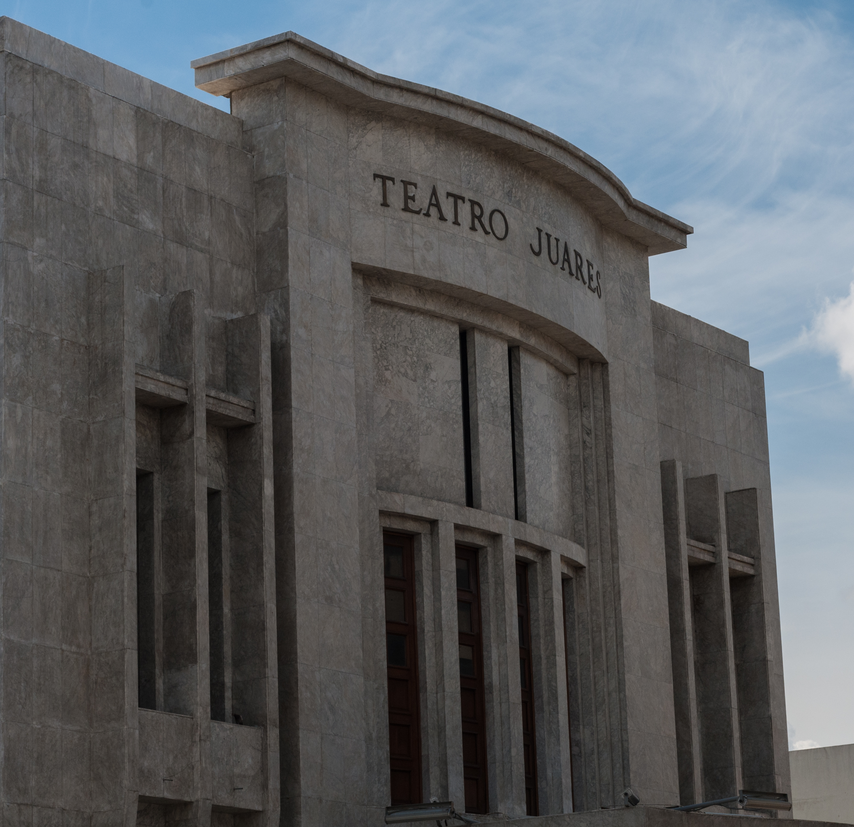 Fachada del Teatro Juares de Barquisimeto